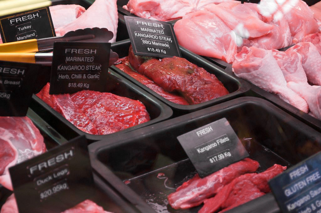 Kangaroo Meat for sale at the Queen Victoria Market, Melbourne, Victoria State, Australia